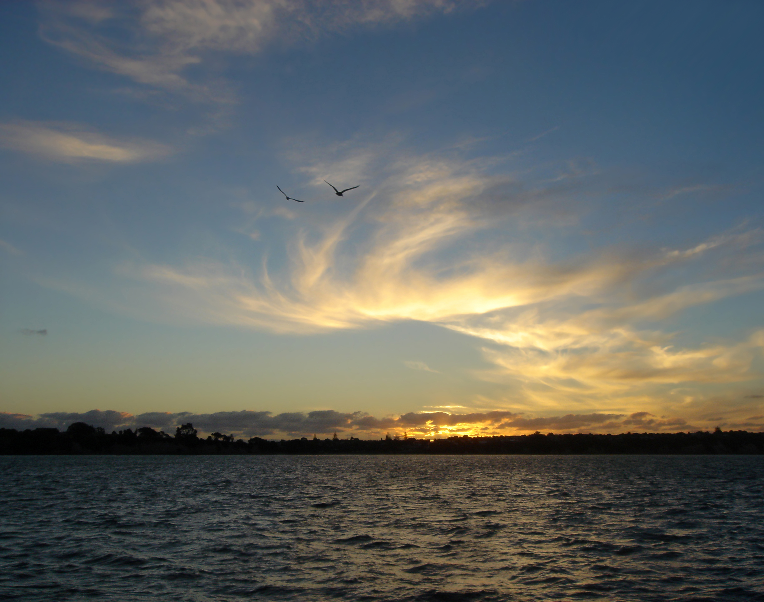 Hauraki Gulf, New Zealand. Looking northwest from between Devonport and Rangitoto Island, a winter sunset.